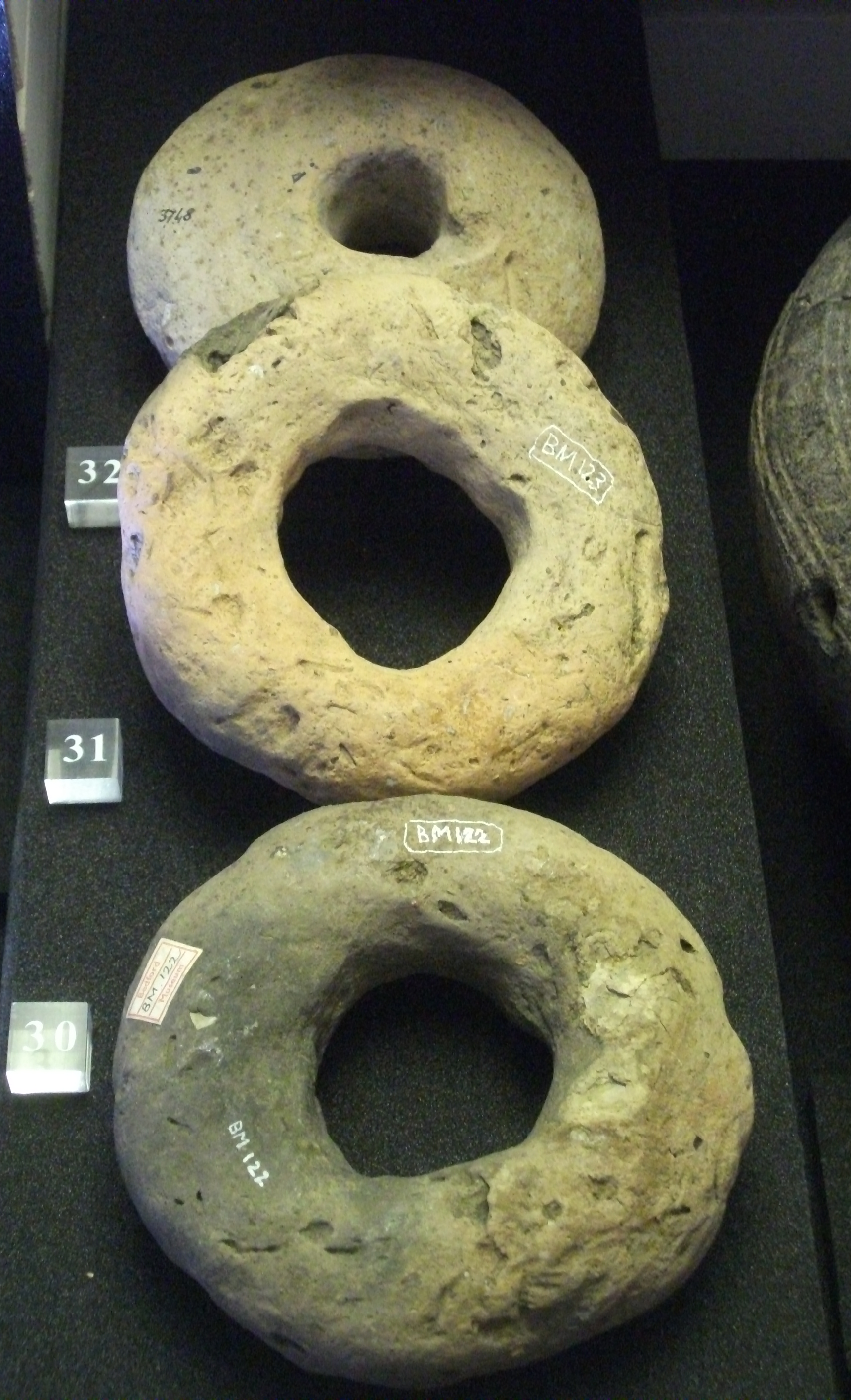 3 Saxon loomweights on display in Bedford Museum. The front two are early Saxon and come from Kempston: the furthest one is mid to late Saxon and comes from Barton-in-the-clay.